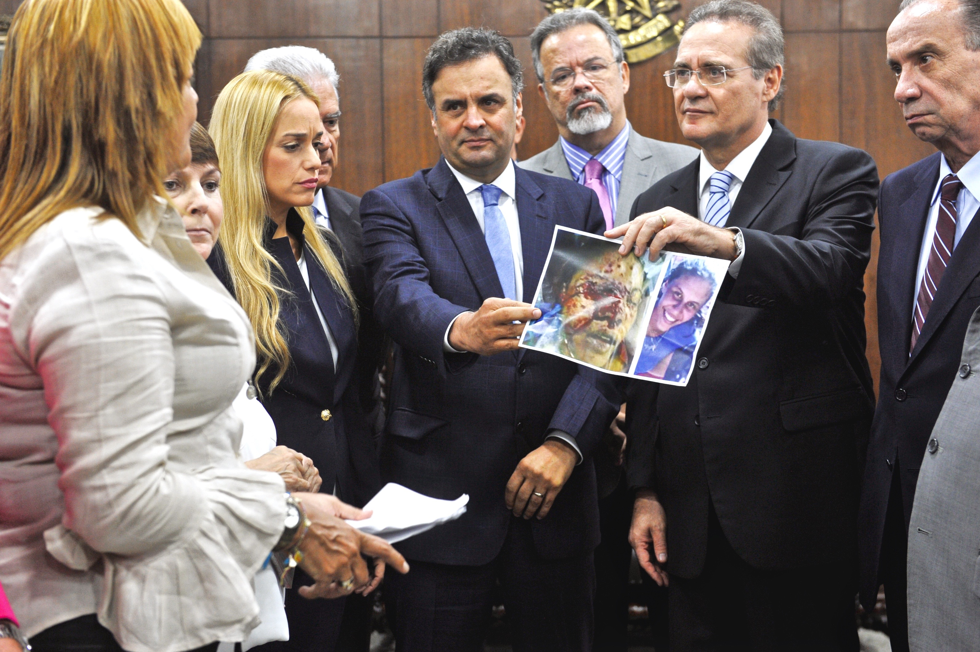 President of the Senate, Senator Renan Calheiros (PMDB-AL) receives opposition activists to the current Venezuelan government, Lilian Tintori, Mitzy Capriles and Rosa Orozco, accompanied by Brazilian senators and congressmen. The President of the Senate, Renan Calheiros (PMDB-AL), assured full support of Congress in the pursuit of social and political balance in Venezuela. Renan received the visit of opposition activists to the current Venezuelan government. They are: Lilian and Mitzy, wives of Leopoldo Lopez, People's Will party leader and mayor of Caracas, Antonio Ledezma, arrested by order of President Nicolás Maduro. Rosa Orozco is the mother of a 23 year old killed during a protest against the government in Caracas.